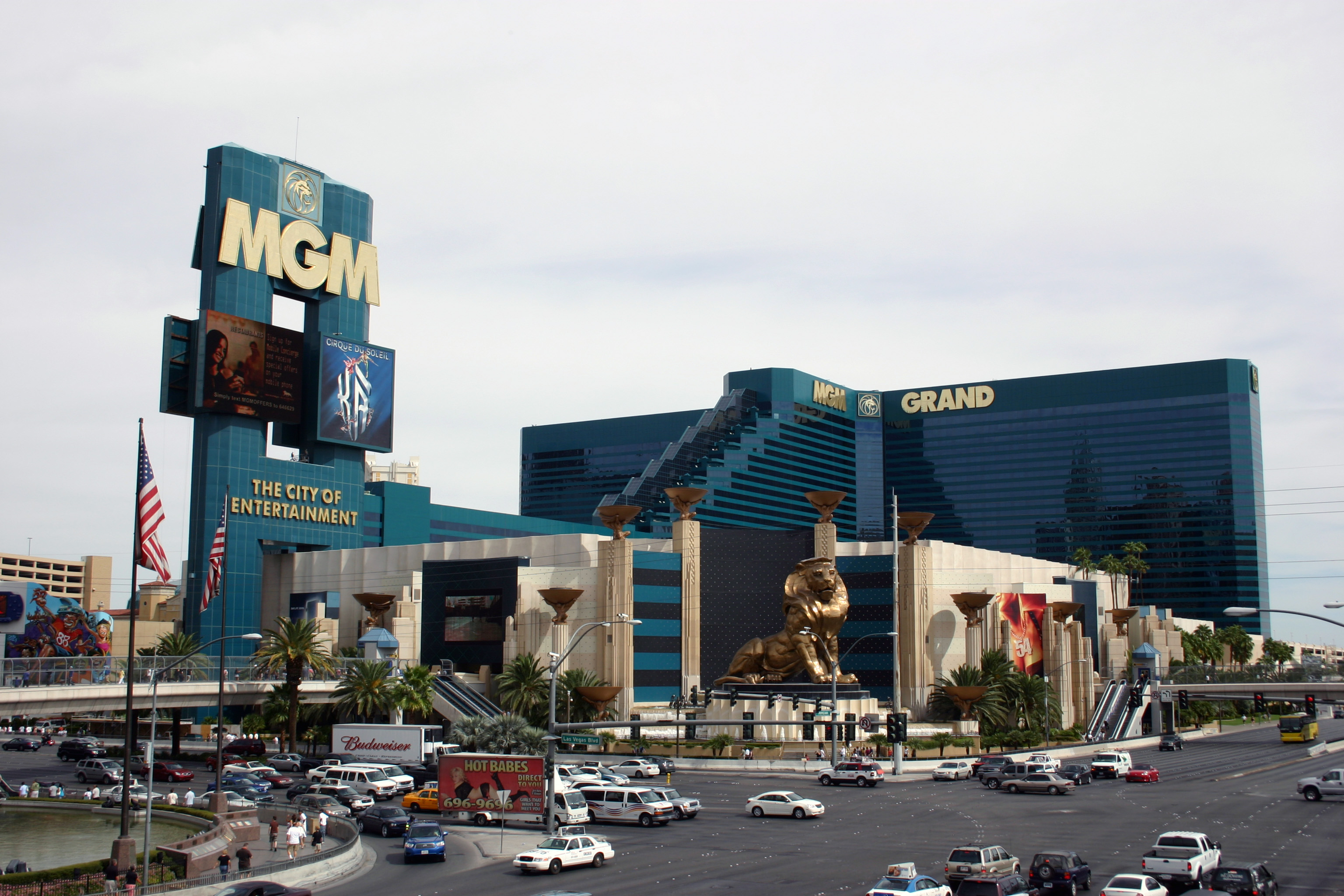 The MGM Grand Las Vegas from across the intersection of Tropicana & Las Vegas Blvd.